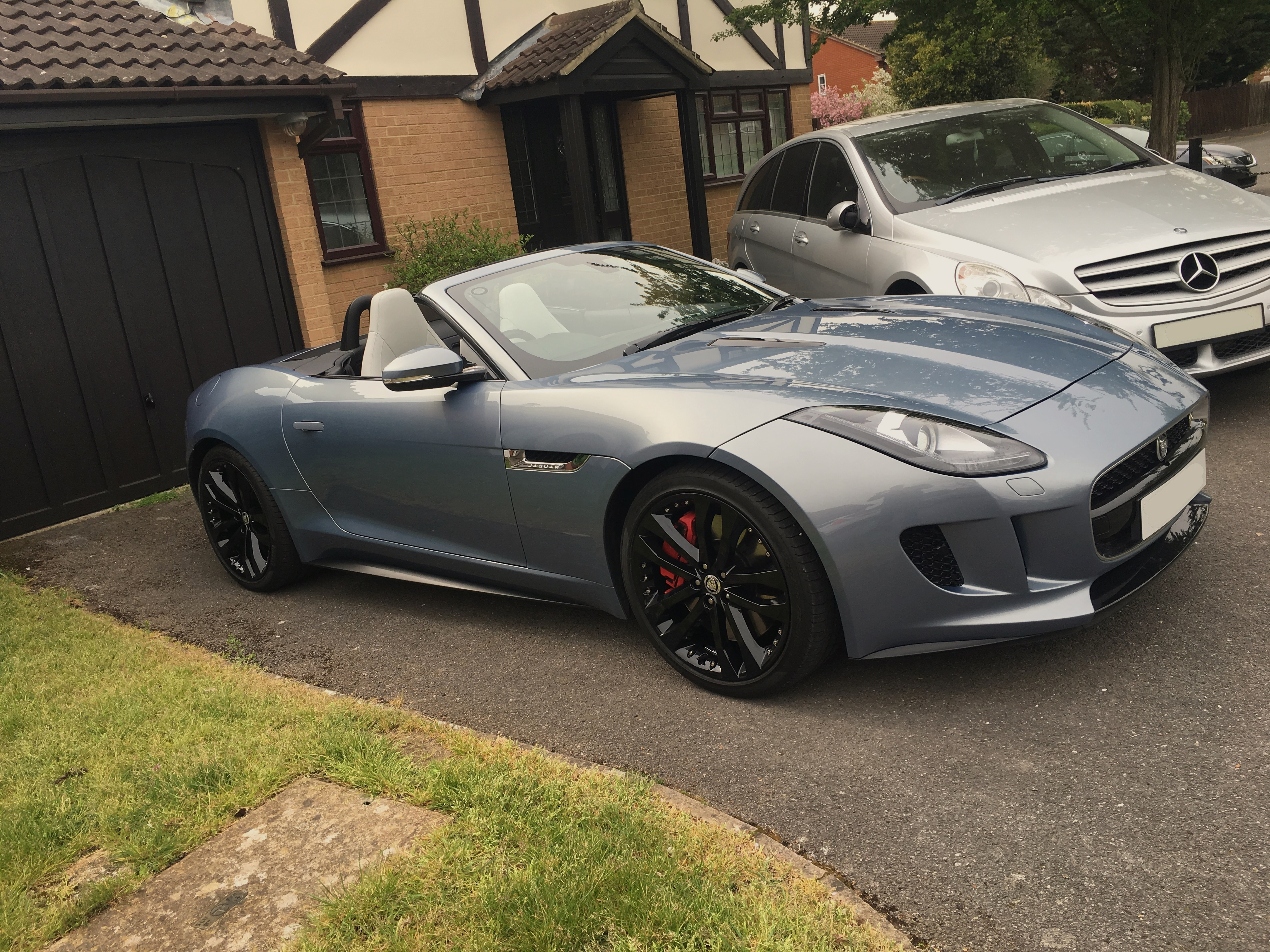 A 2014 Jaguar F-Type V8 S (RWD)